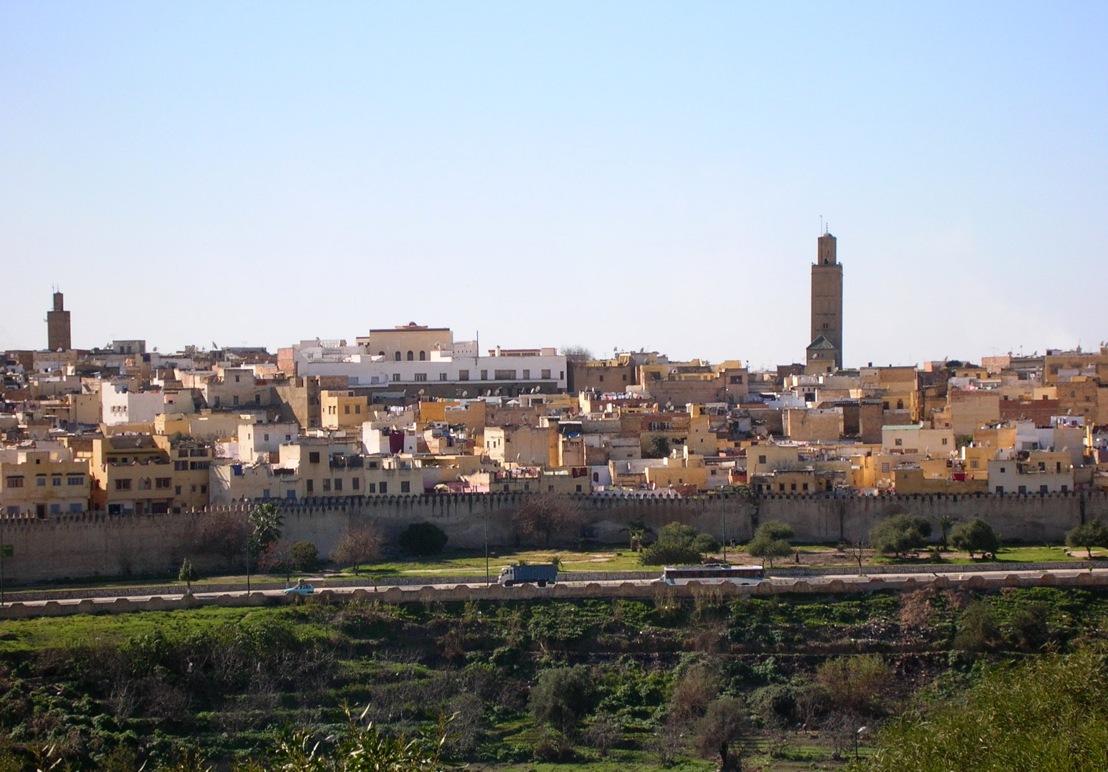 Meknes, Morocco